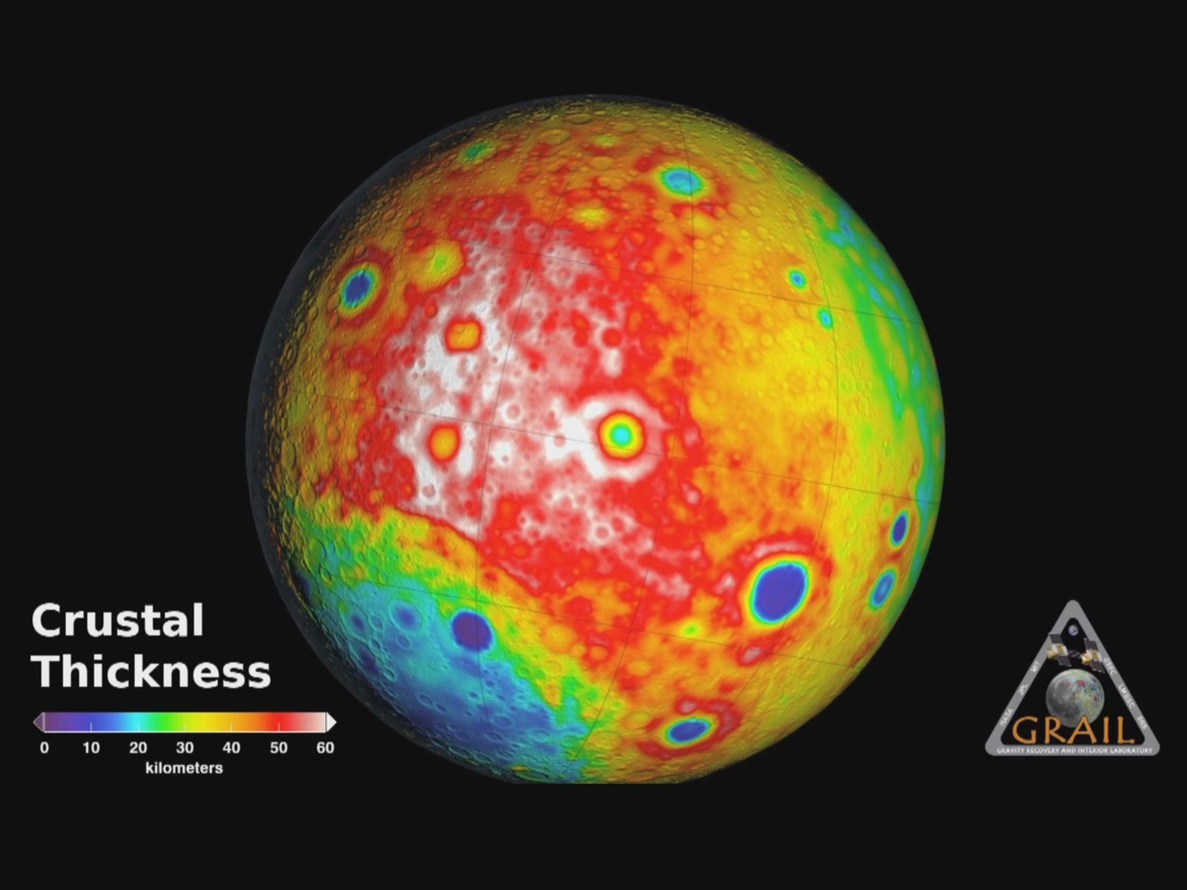 This image depicting the crustal thickness of the moon was derived using gravity data from NASA's GRAIL mission and topography data from NASA's Lunar Reconnaissance Orbiter. The measurements match those found from seismic data at the NASA Apollo mission 12 and 14 landing sites, where crustal thickness is 19 miles (30 kilometres). There is a minimum crustal thickness less than 0.6 mile (1 kilometre) within the nearside Crisium and far side Moscoviense impact basins. The average thickness of the crust is 21 miles (34 kilometers), which is almost 12 miles (20 kilometres) thinner than values from previous studies. Regions of crustal thinning in blue are associated with several large impact basins several hundreds of kilometres in diameter. The far side differs from the near side by having a higher than average crustal thickness (in red).